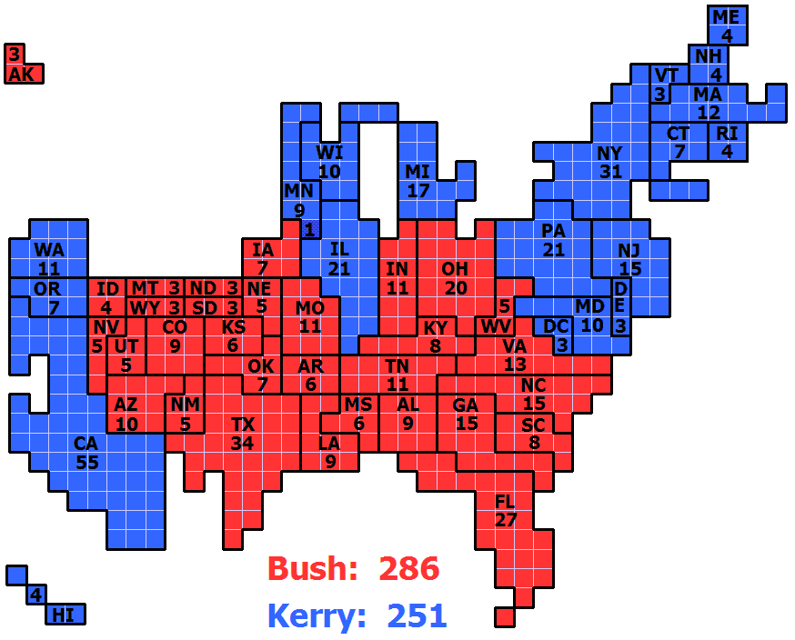 Cartogram of 2004 Electoral Vote for US President, with each square representing one electoral vote. The population density of the 50 states varies by three orders of magnitude (from NJ with nearly 1,200 people per square mile, to AK with roughly 1 1/4 people per sq mi). Because of that huge variation, a regular map of the US that is typically used to present electoral vote results can convey a very skewed impression of the outcome where sparsely populated states appear overrepresented and densely populated states appear underrepresented. The cartogram approach of this image eliminates that problem by presenting the area of each state in an exact one-to-one correspondence with its number of electoral votes. But this is achieved at the cost of introducing distortions to the actual shape of each state and their positioning in relation to each other.